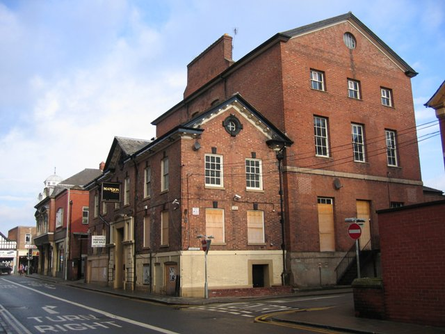 The Mansion House in Love Street. On the corner of Love Street and Forest Street the Mansion House was the latest incarnation of this old building. It has had many guises over the years and is now waiting for the next entrepreneur to take it in hand. The huge building on the right used to be a 'Depository' for 'Lamont and sons', and this information is painted on to the gable end at the opposite end of the building. See 622835